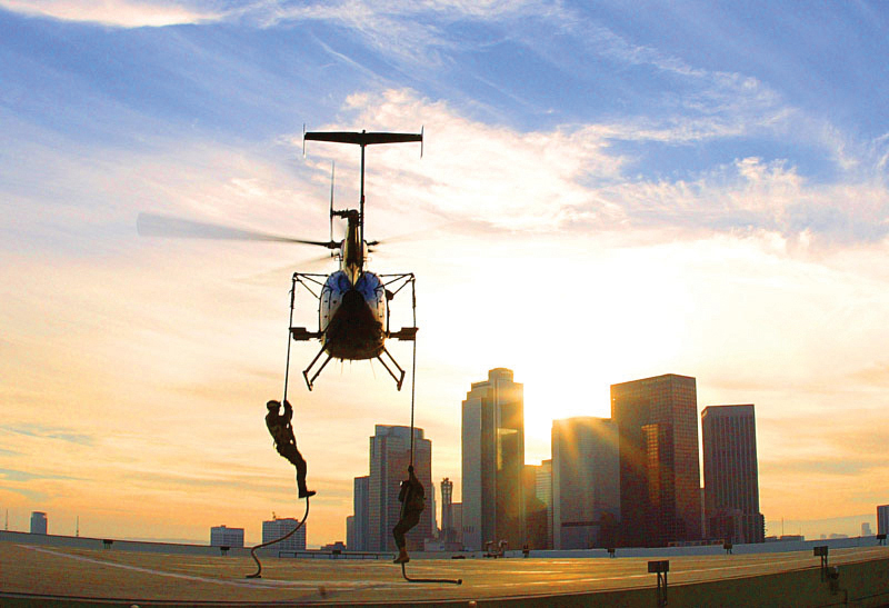 FBI Hostage Rescue training from helicopter. Los Angeles.